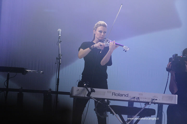 Fiona Brice playing with Placebo in Bologna 29/11/09